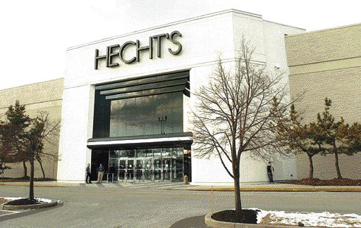 Former Hecht's store at Westfield Wheaton in Wheaton, Maryland, (a suburb of Washington, DC) demolished in 2011 to make way for construction of a new Costco store.